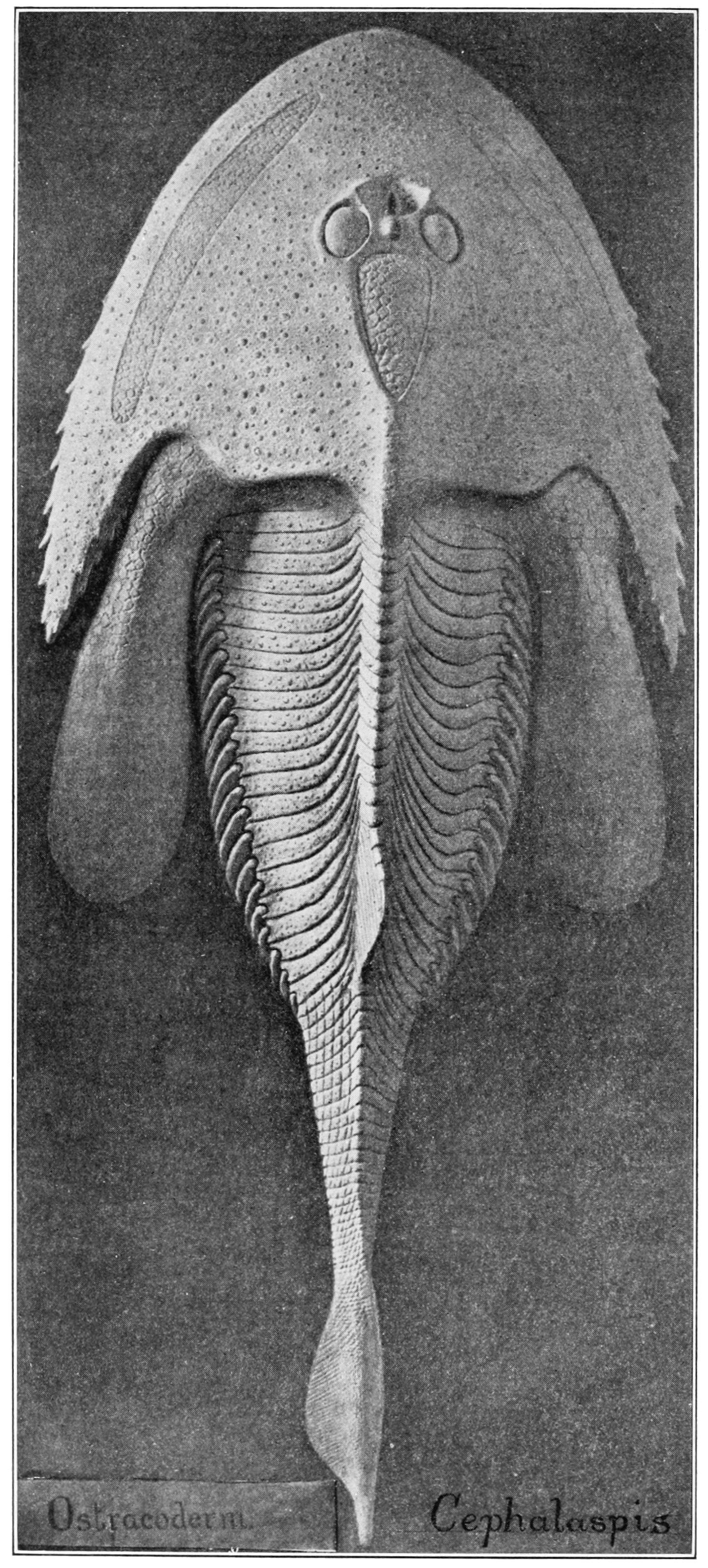 A restored Cephalaspis sp.